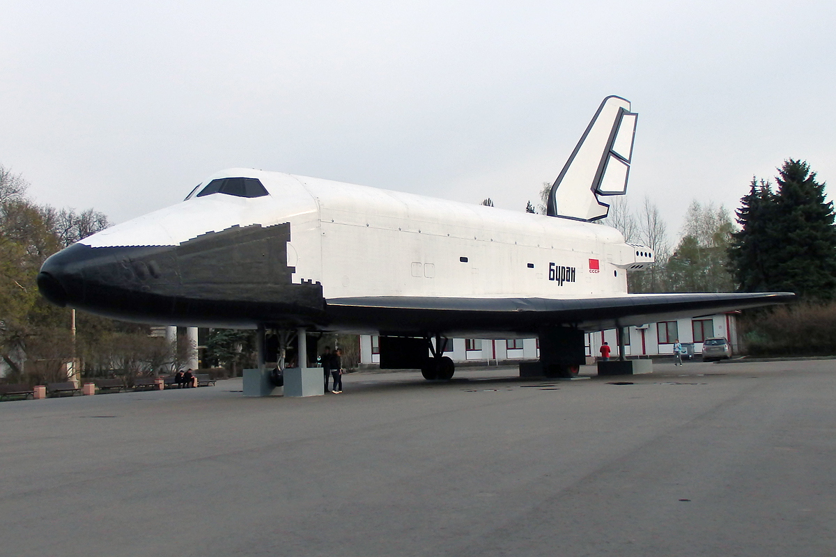 BURAN (mock up)